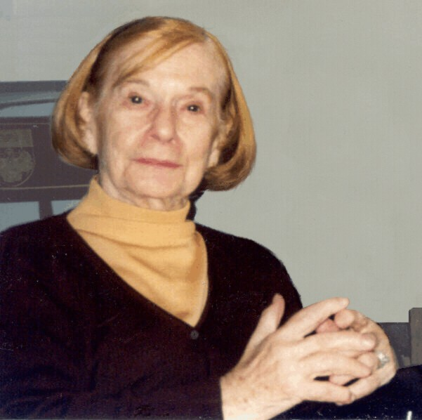 Photograph of Mary Ann O'Brian Malkin taken by Terry Belanger at Rare Book School (RBS). RBS lent a copy of the photograph to the New York Times for its 2005 obituary of Mrs Malkin, but the original is the property of Terry Belanger.